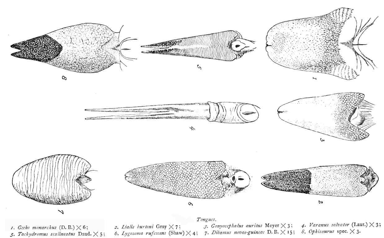 Tongues of lizards